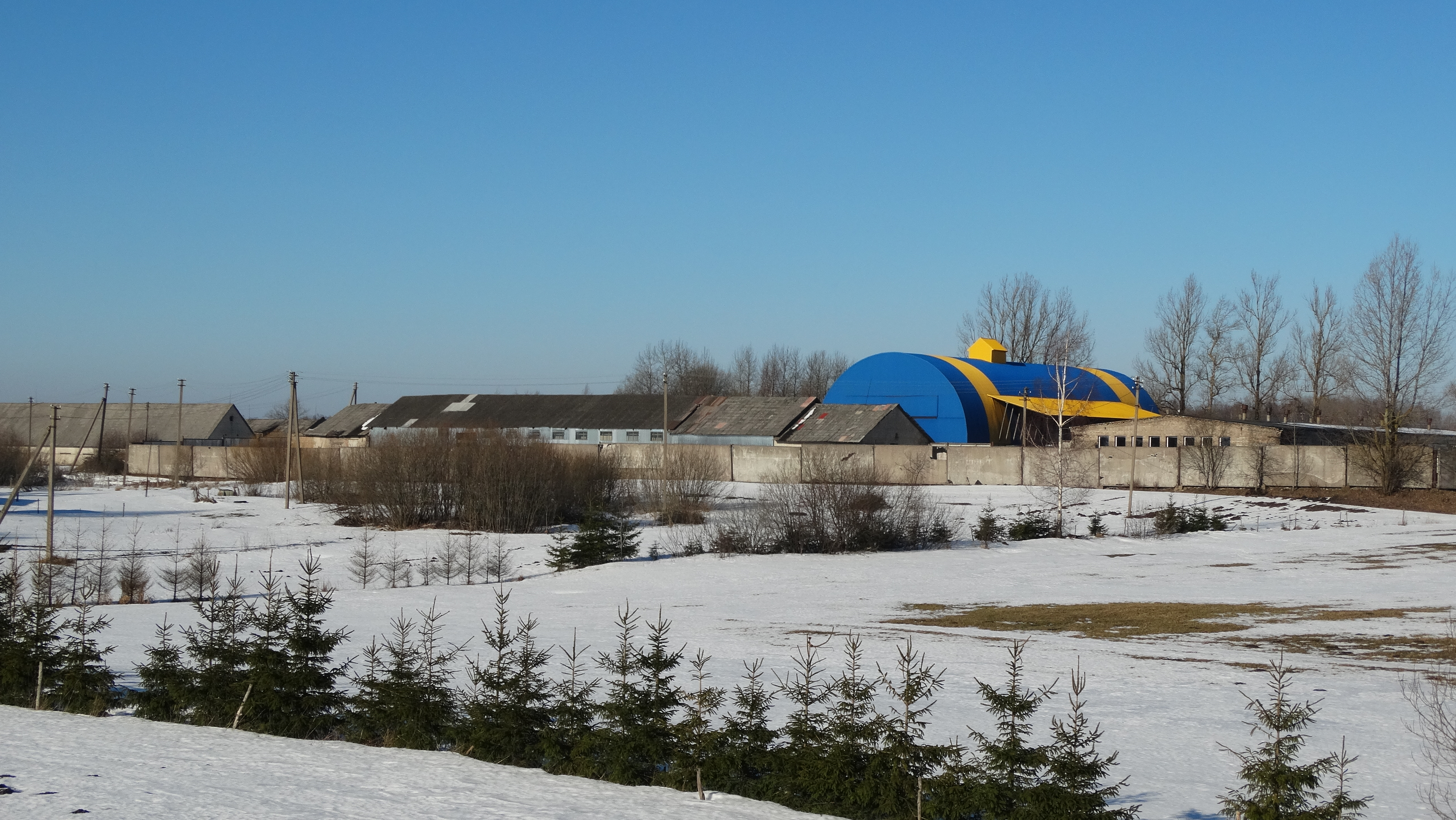 Stungaičiai, Šilalė district, Lithuania